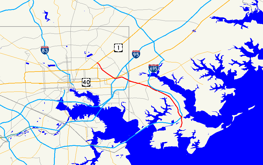 Map of Maryland Route 151